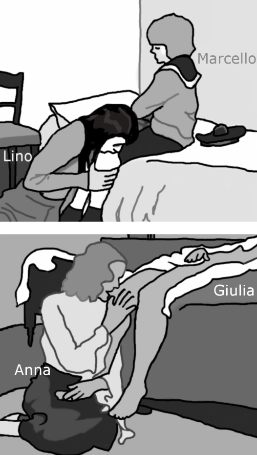 A sketch to compare two scenes in the film "Il conformista" (1970)